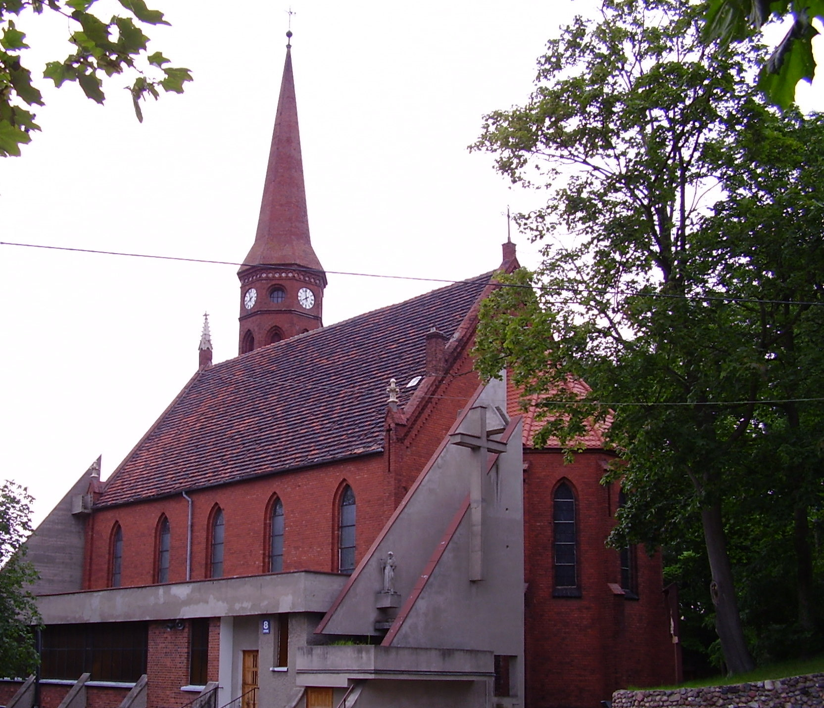 Saint Peter's Church in Międzyzdroje (Poland)